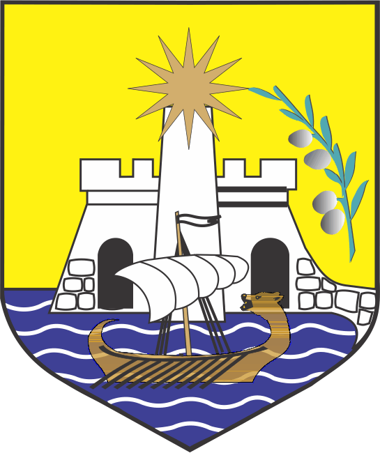 Coat-of-Arms of Ulcinj (Montenegro)